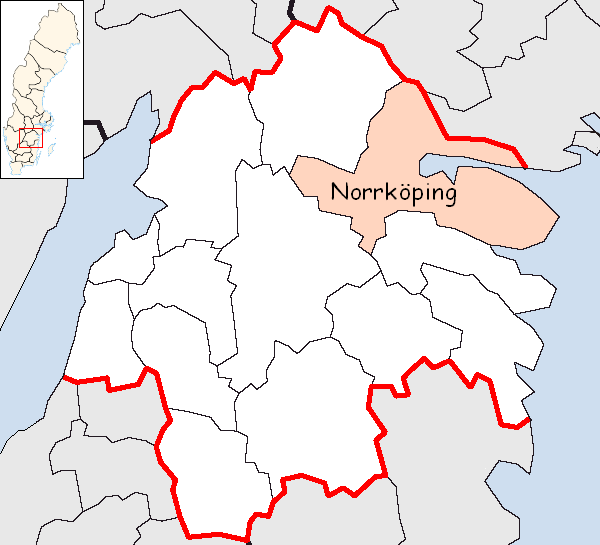 Norrköping Municipality in Östergötland County Designed by me. Mere outlines are a PD source from